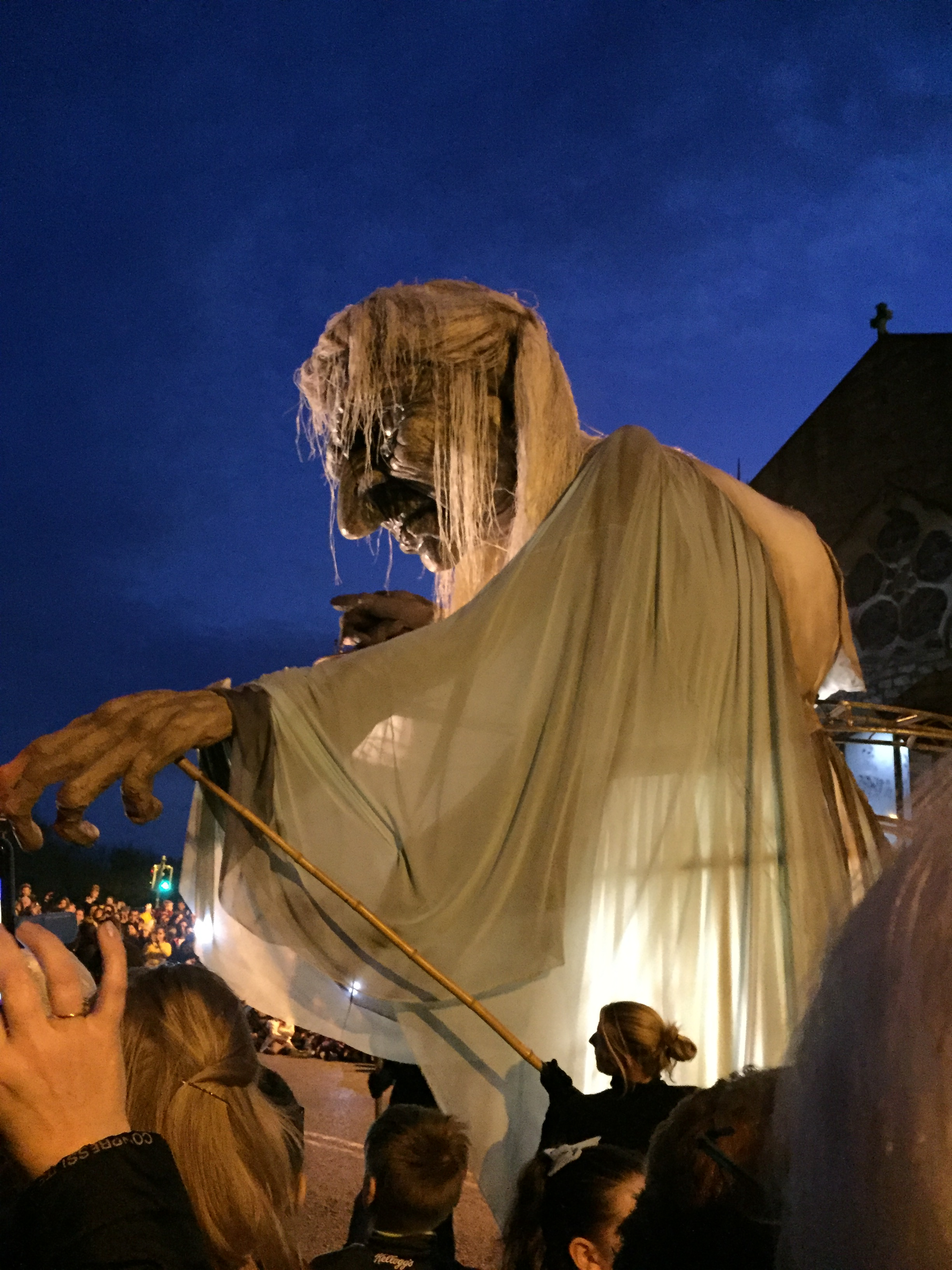 An image from the 2016 Macnas parade, Savage Grace. Halloween.